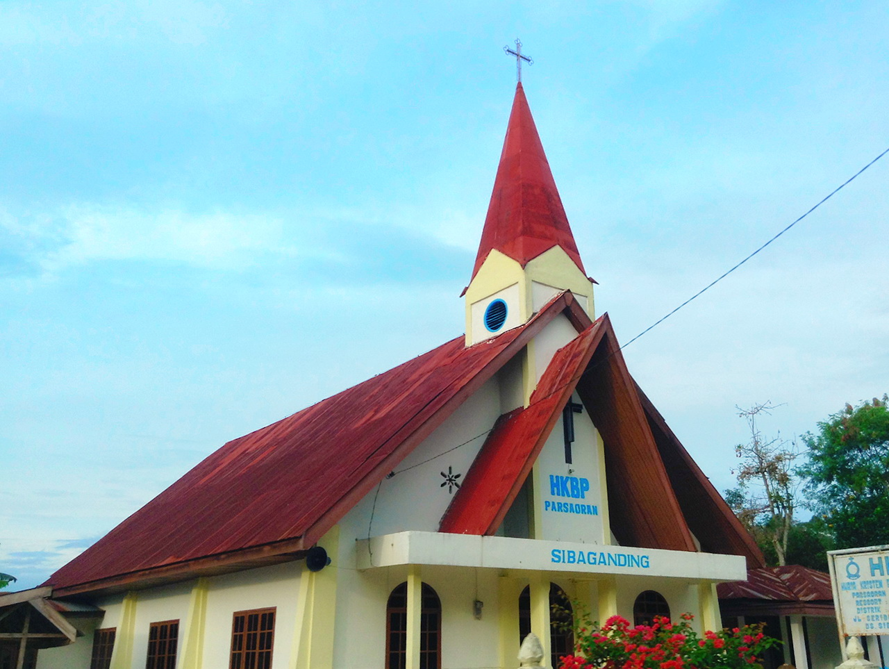 HKBP Parsaoran Sibaganding, Church in Janggir Leto, Panei, Simalungun